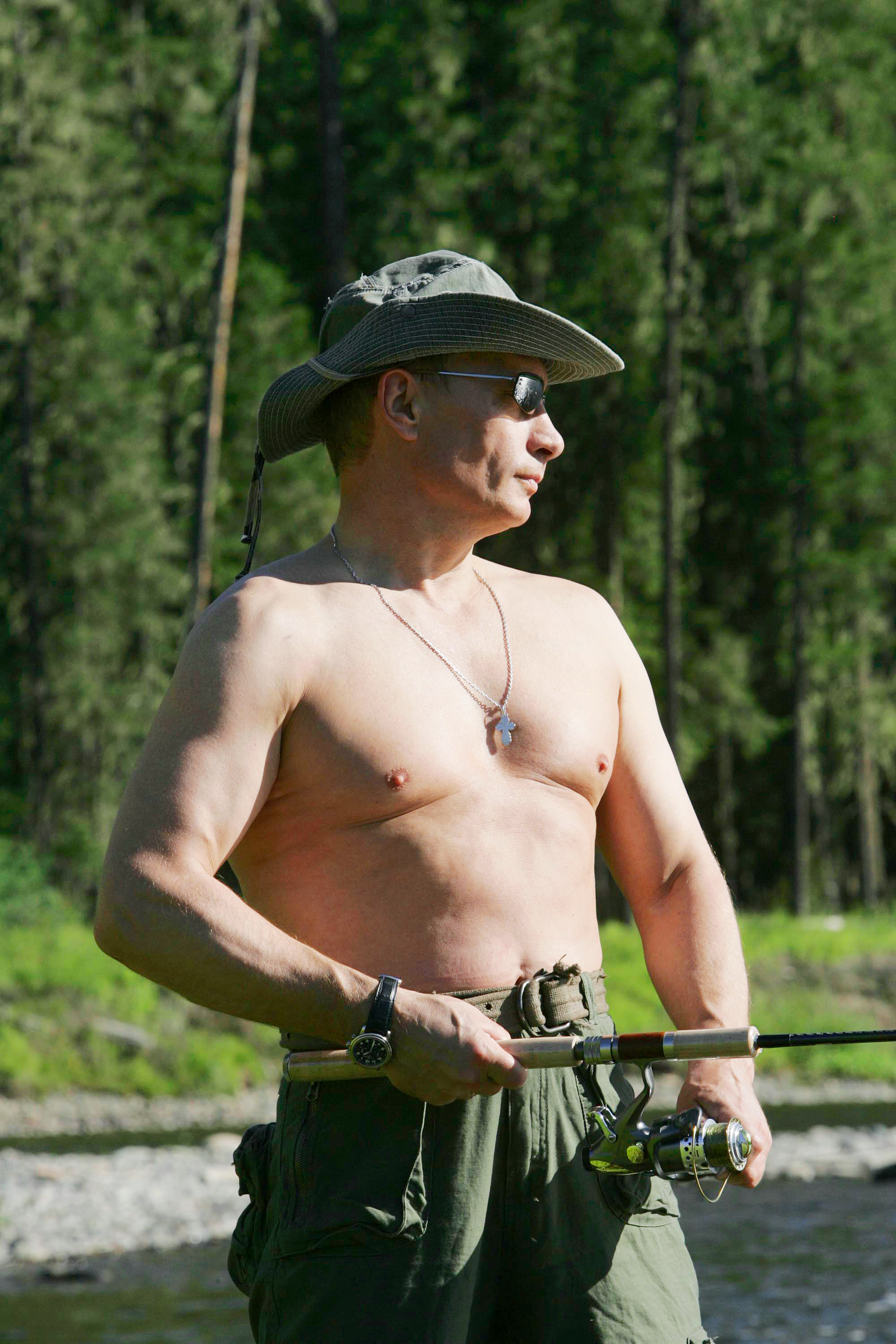 REPUBLIC OF TUVA. During the 48-kilometre long boat trip down the Yenisei River.